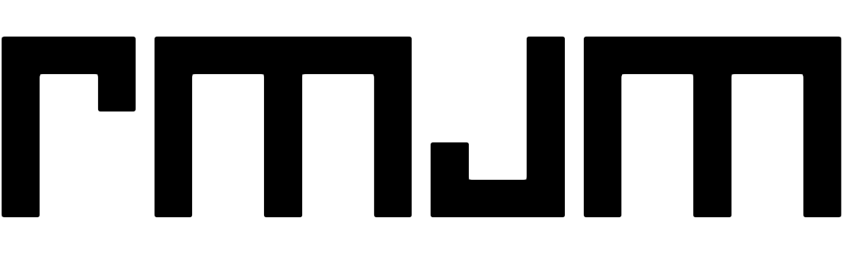 RMJM Official Logo as of February 2016 - Final PNG